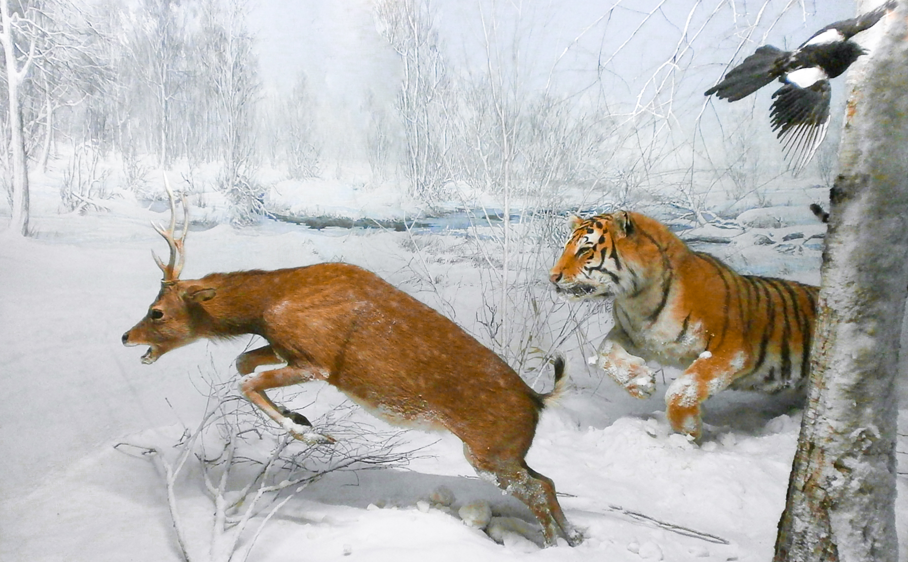 Siberian Tiger, Sika Deer and unidentified bird in Siberia. Diorama with taxidermied animals at Natural History Museum of Milan (Dimensions: 5x4 m, pictorial background by Uwe Thürnau)